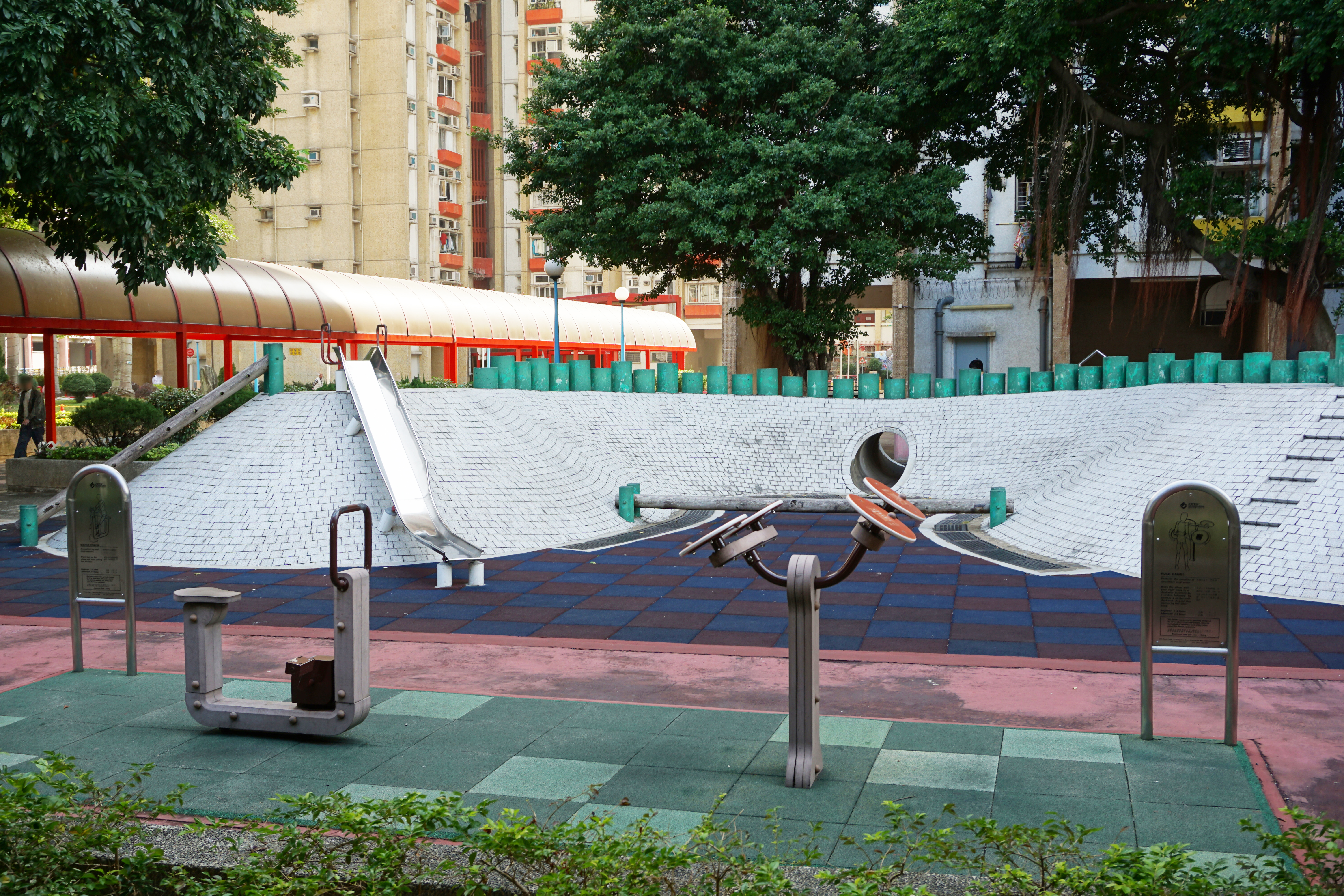 Ching Tai Court in Tsing Yi, Hong Kong.